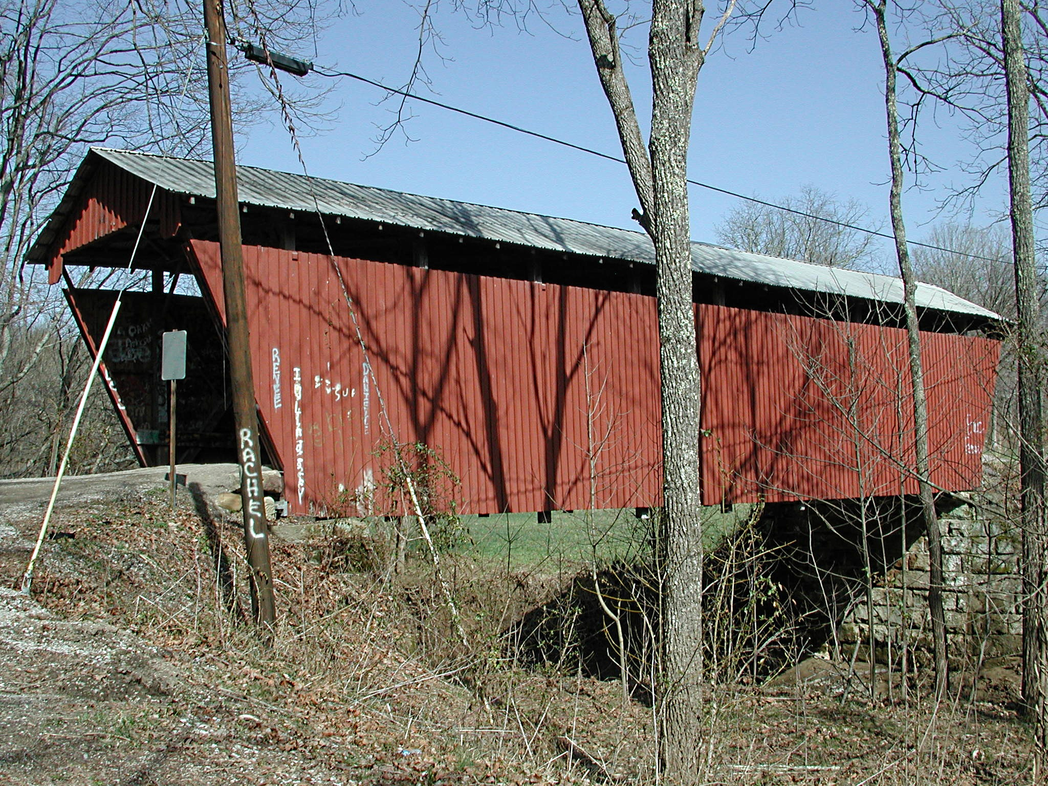 View of Blackwood Covered Bridge, seen from southwest corner (on Blackwood Road), in Lodi Township, Athens County, Ohio, over the Shade River